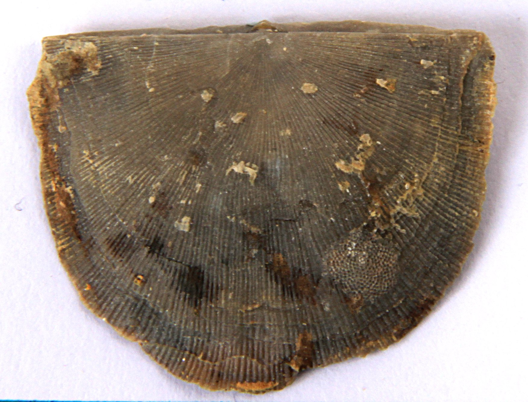 A Strophomena costellata lampshell, Order Strophomenida, Family Strophomenidae, 24mm along the axis, collected at the Pooleville Member, Bromide Formation, near Ardmore, Oklahoma, USA, fromt the middle Upper Ordovician (Katian)